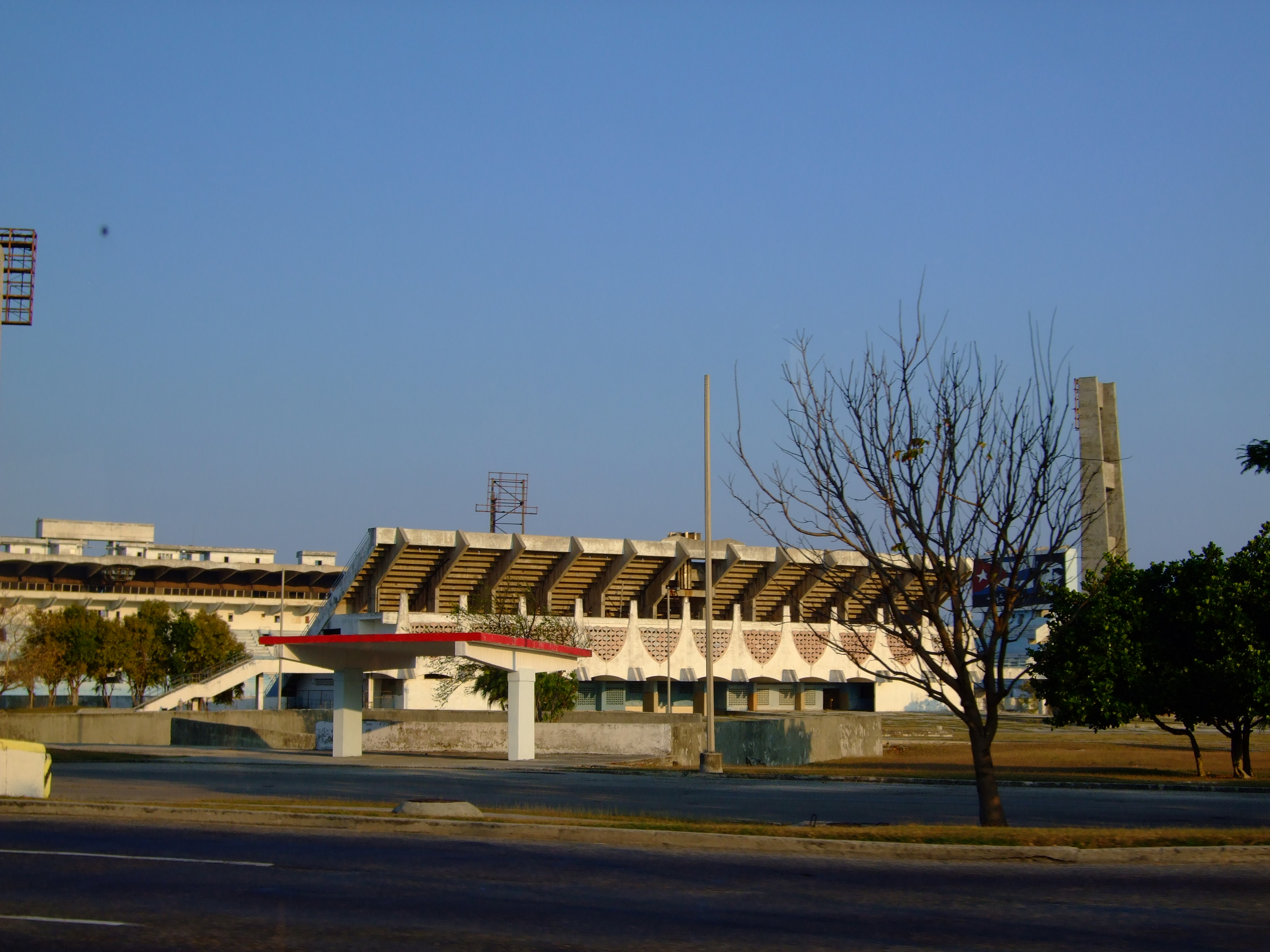 A baseball stadium east of Havana, view from Autopista Nacional. A bus stop in the front and an image of Che Guevara in the background.